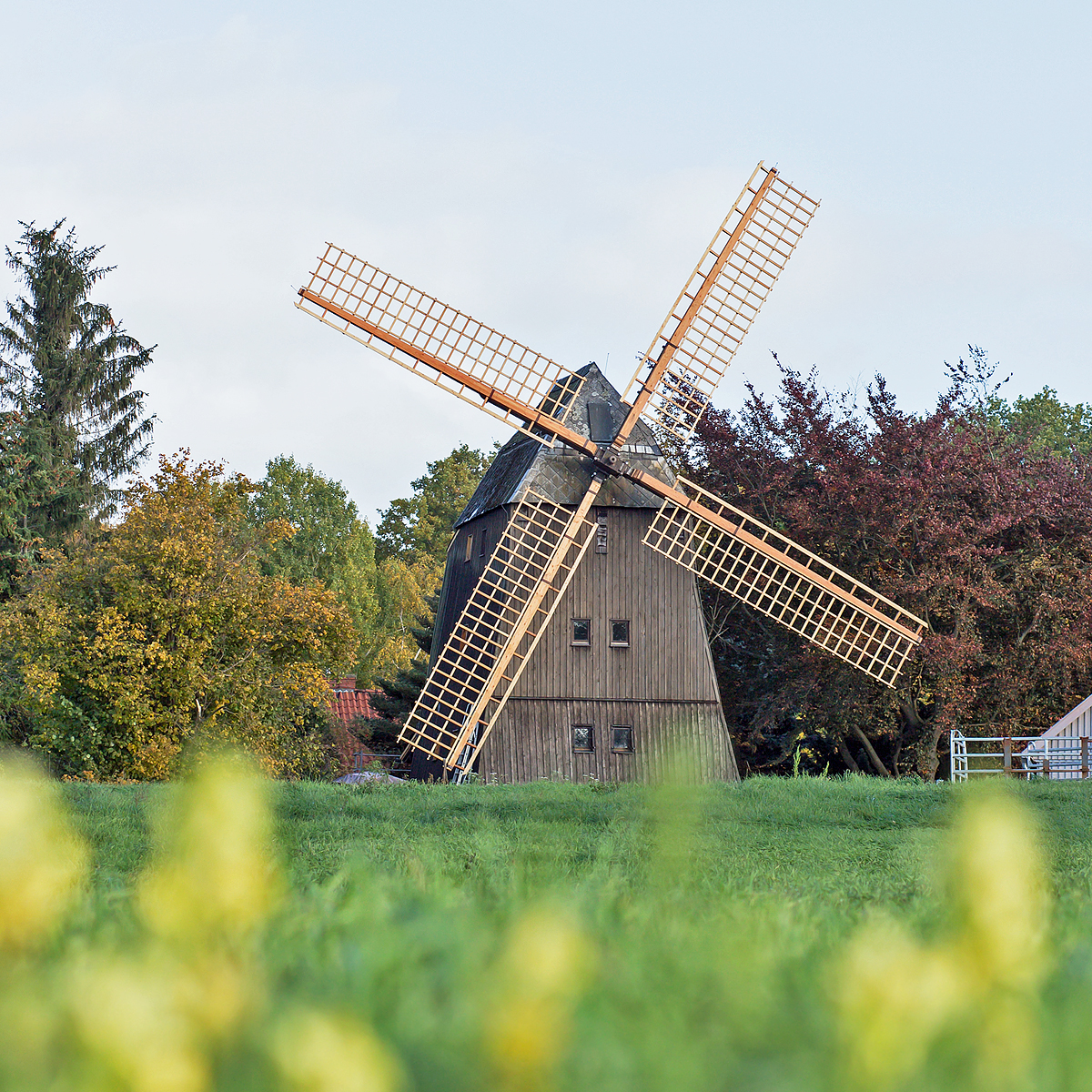 Former windmill in the small village Quickborn (district Lüchow-Dannenberg, northern Germany).